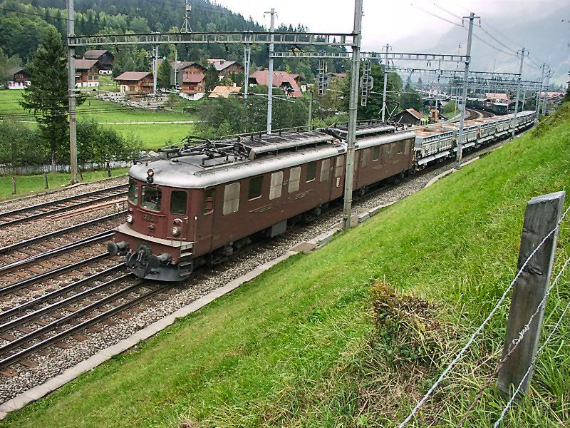 BLS locomotive No. 273, type Ae 8/8 at Kandersteg (CH), going to Goppenstein/Brig